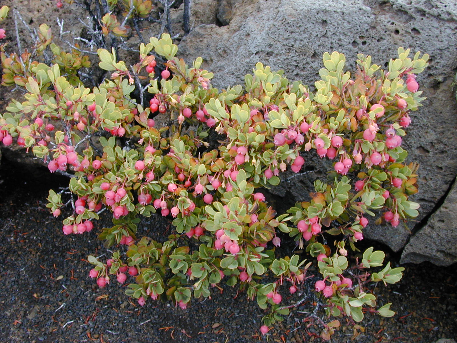 Vaccinium reticulatum (habit with fruits). Location: Maui, Kalahaku Haleakala National Park